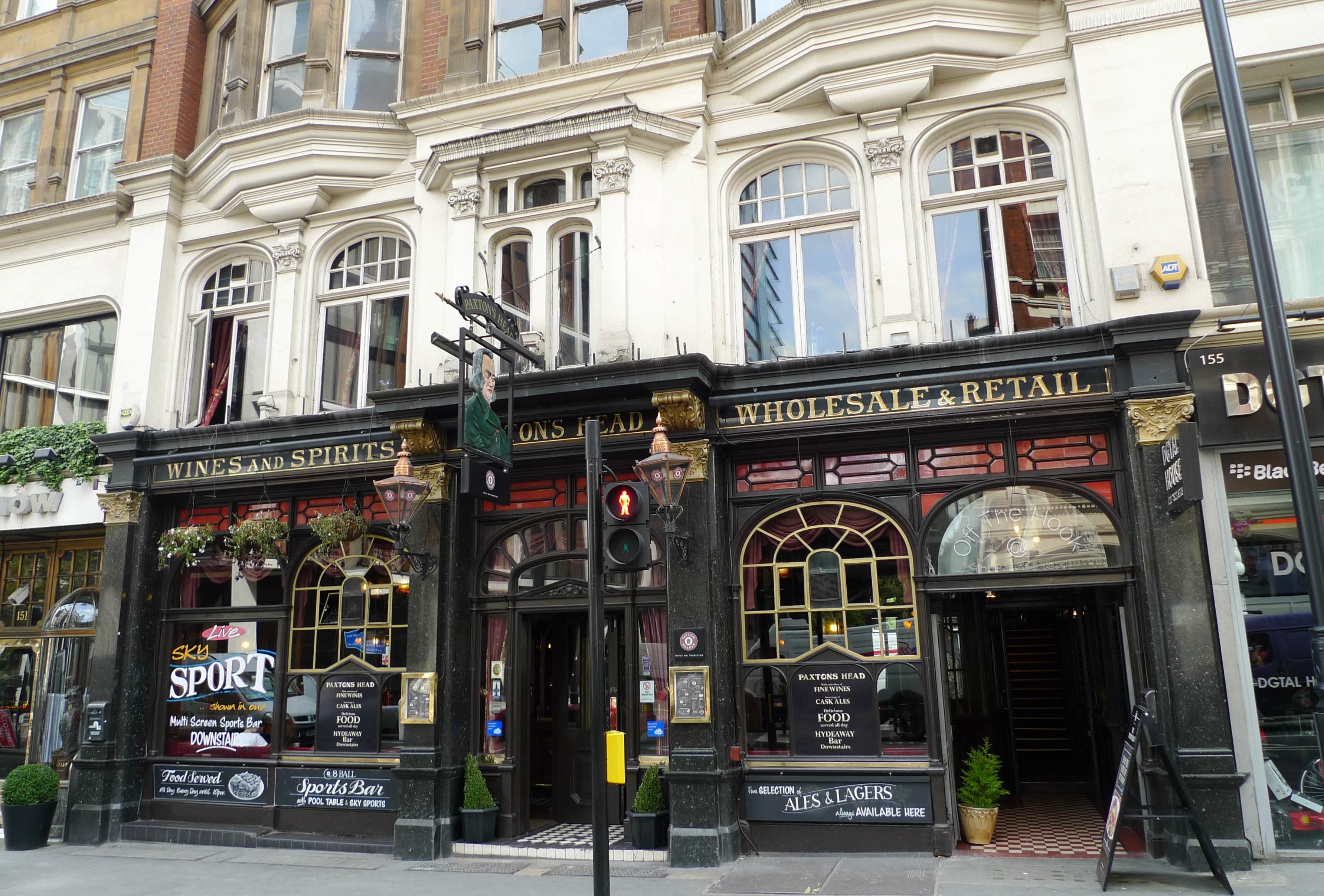 Old pub on the main road. Address: 153 Knightsbridge. Former Name(s): The Marquis of Granby (on the same site); The King's Arms (on the same site). Owner: Punch Taverns [Taylor Walker] (website).